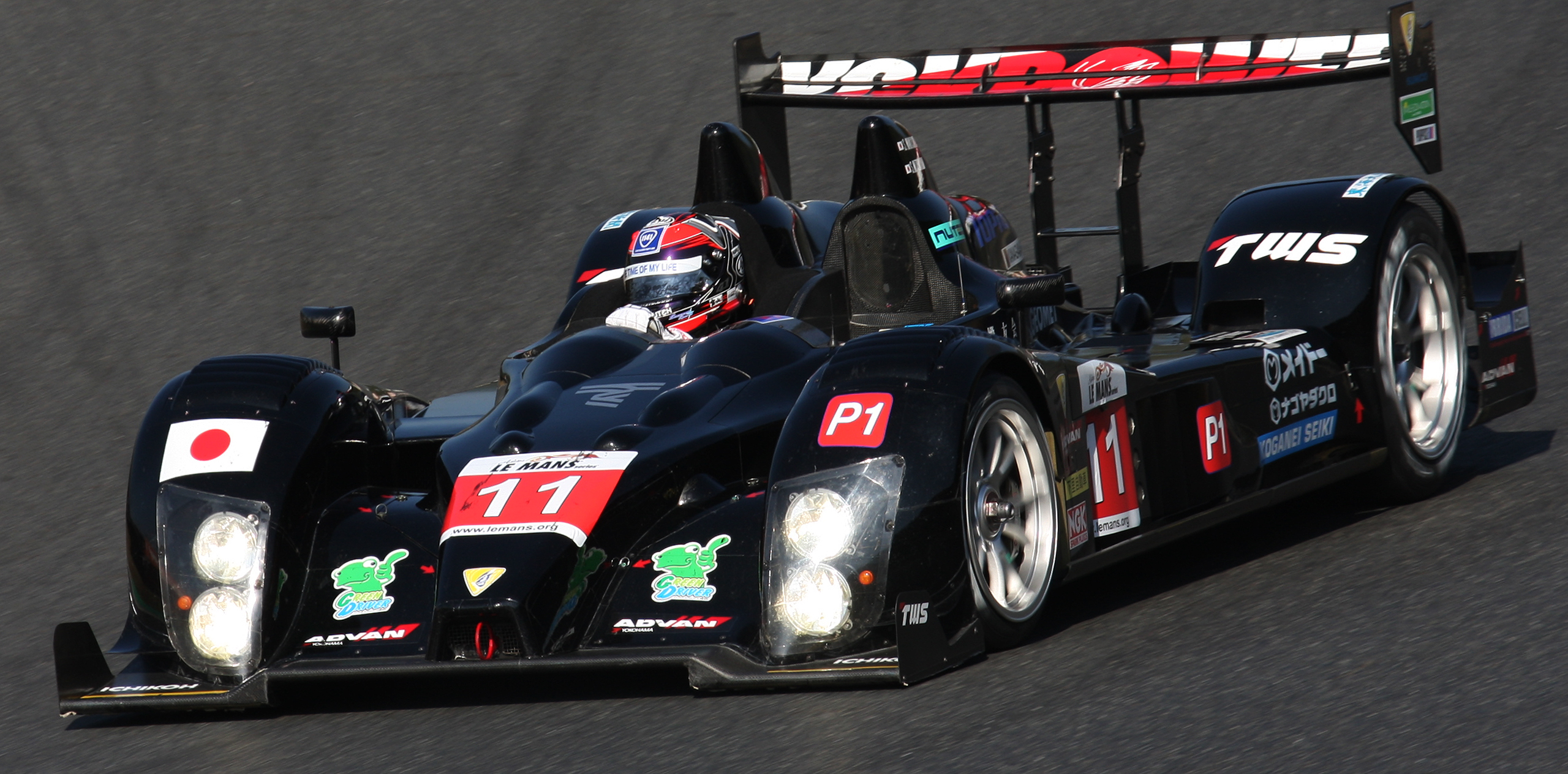 Asian Le Mans Series 2009 1000km of Okayama: Courage-Oreca LC70 (Tōkai University), driven by Shigekazu Wakisaka.